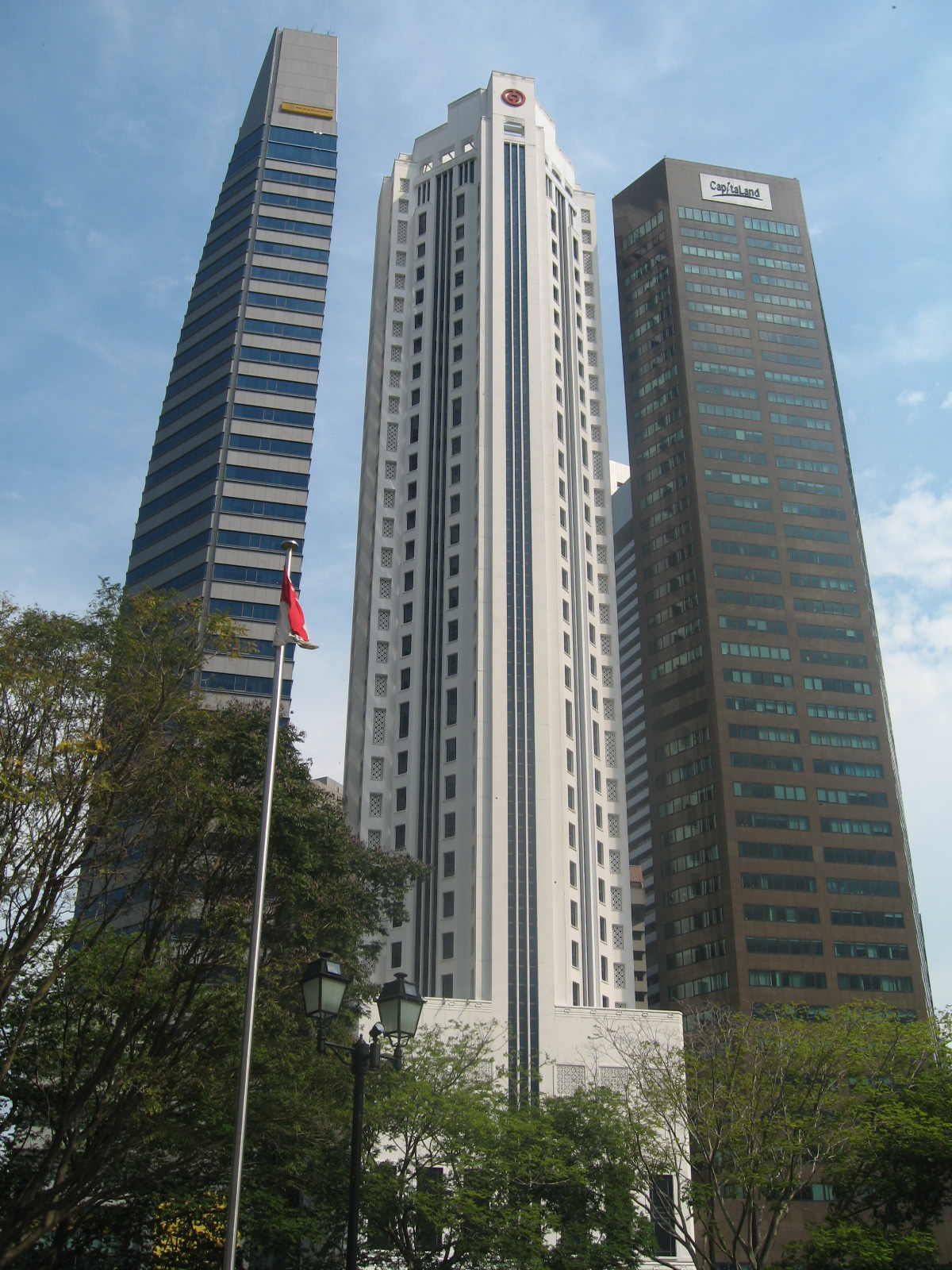 Maybank Tower, Bank of China Building and Six Battery Road.